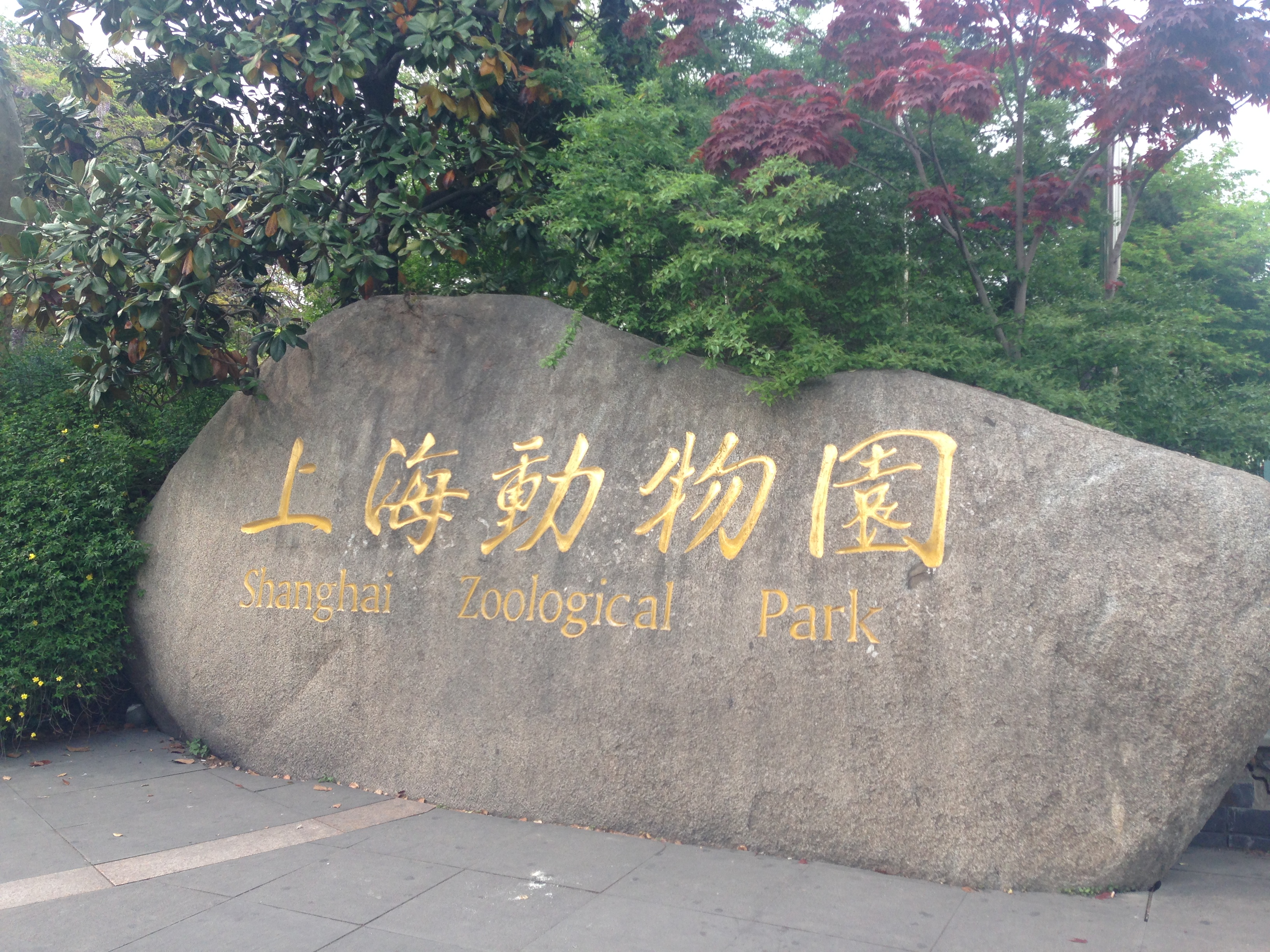 Entrance of Shanghai Zoo (aka Shanghai Zoological Park).